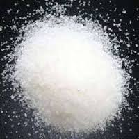 DIBASIC